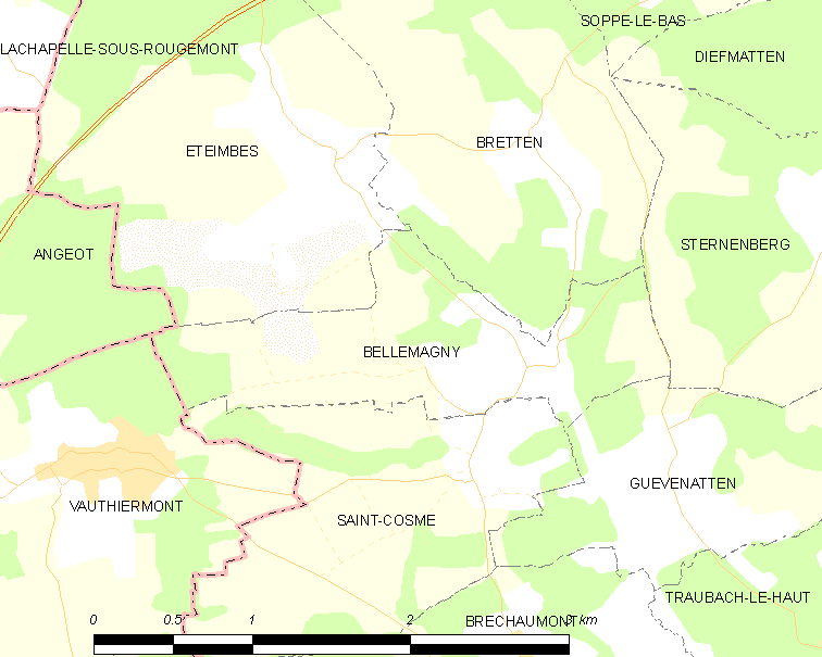 Map of French municipality